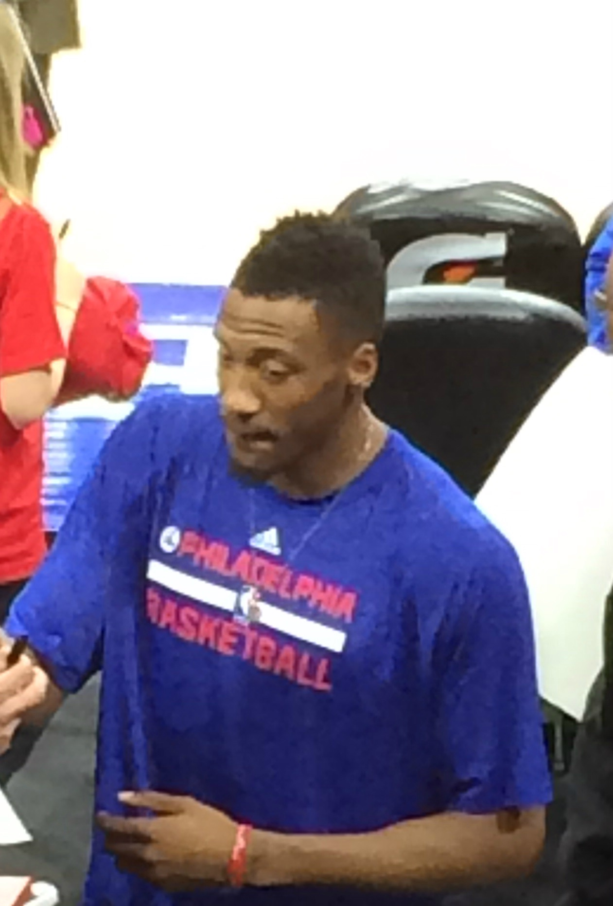 Robert Covington with the 76ers